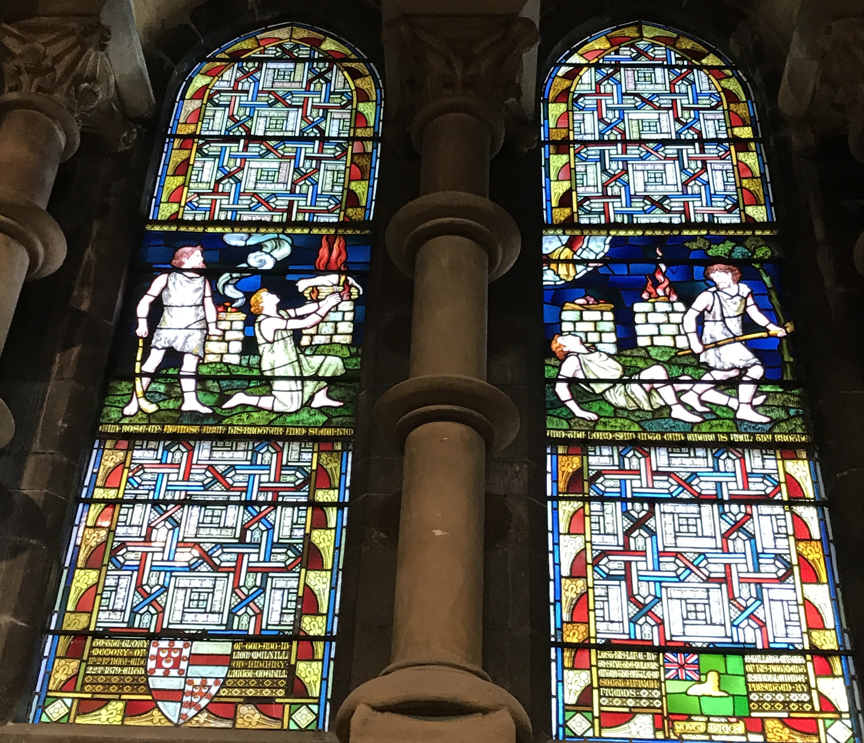 St Fin Barr's: Cain and Abel